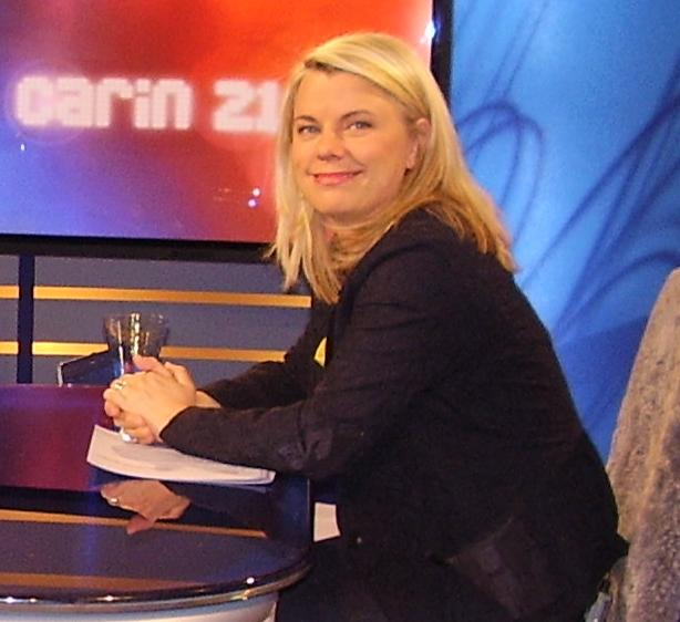 Swedish journalist and talk show host Carin Hjulström